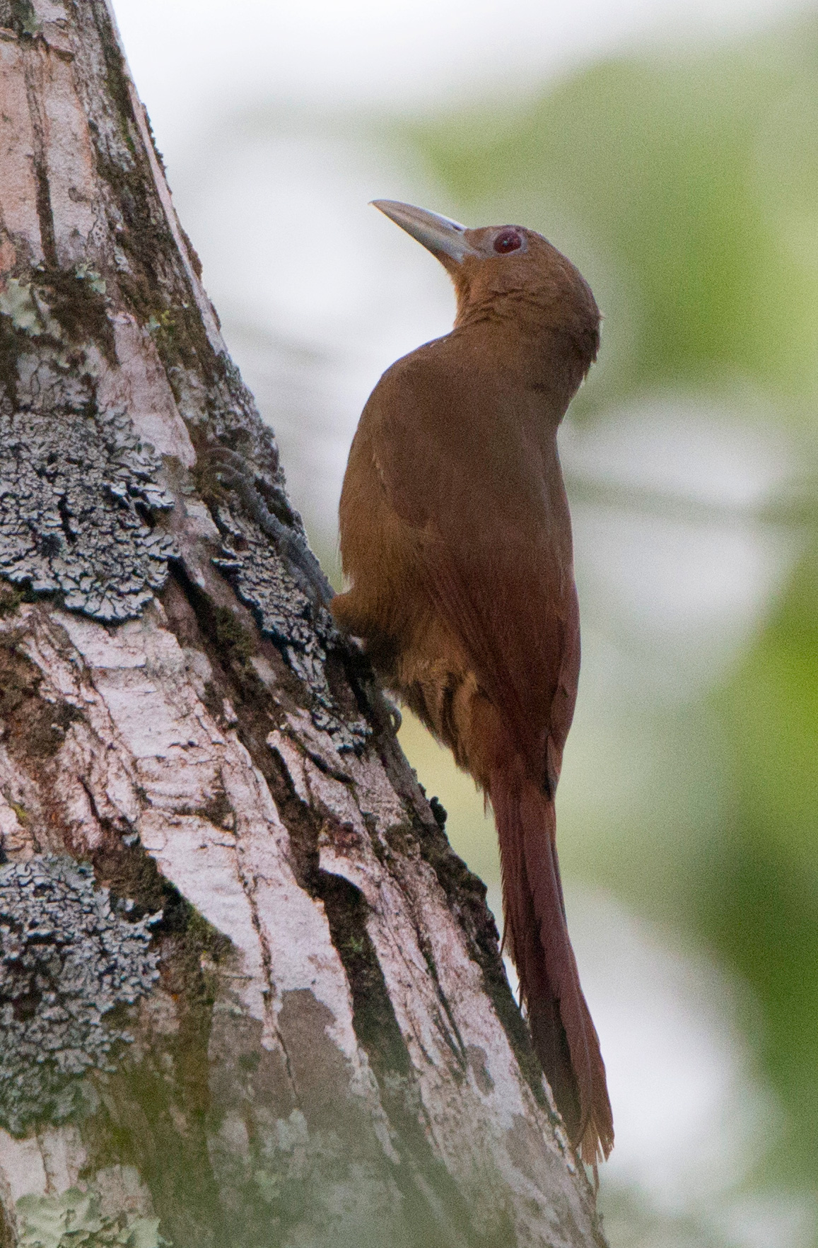 Cinnamon throated woodcreeper near Sacha Lodge, Ecuador